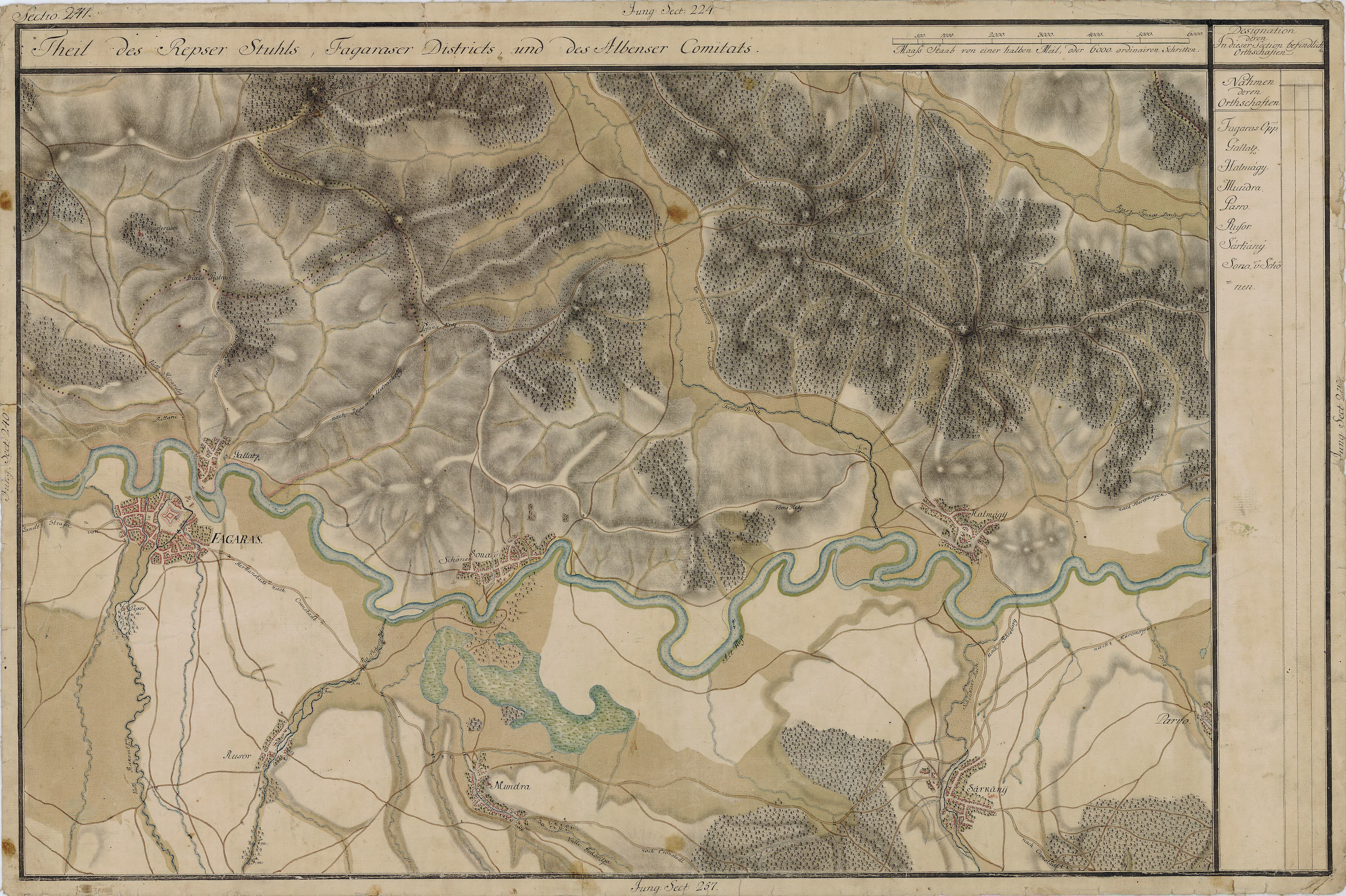 Grand Duchy of Transylvania, 1769-1773. Josephinische Landaufnahme pg.241